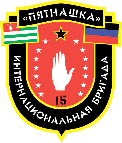 Shoulder sleeve insignia of the Pyatnashka Brigade, a subunit of the DPR Republican Guard.